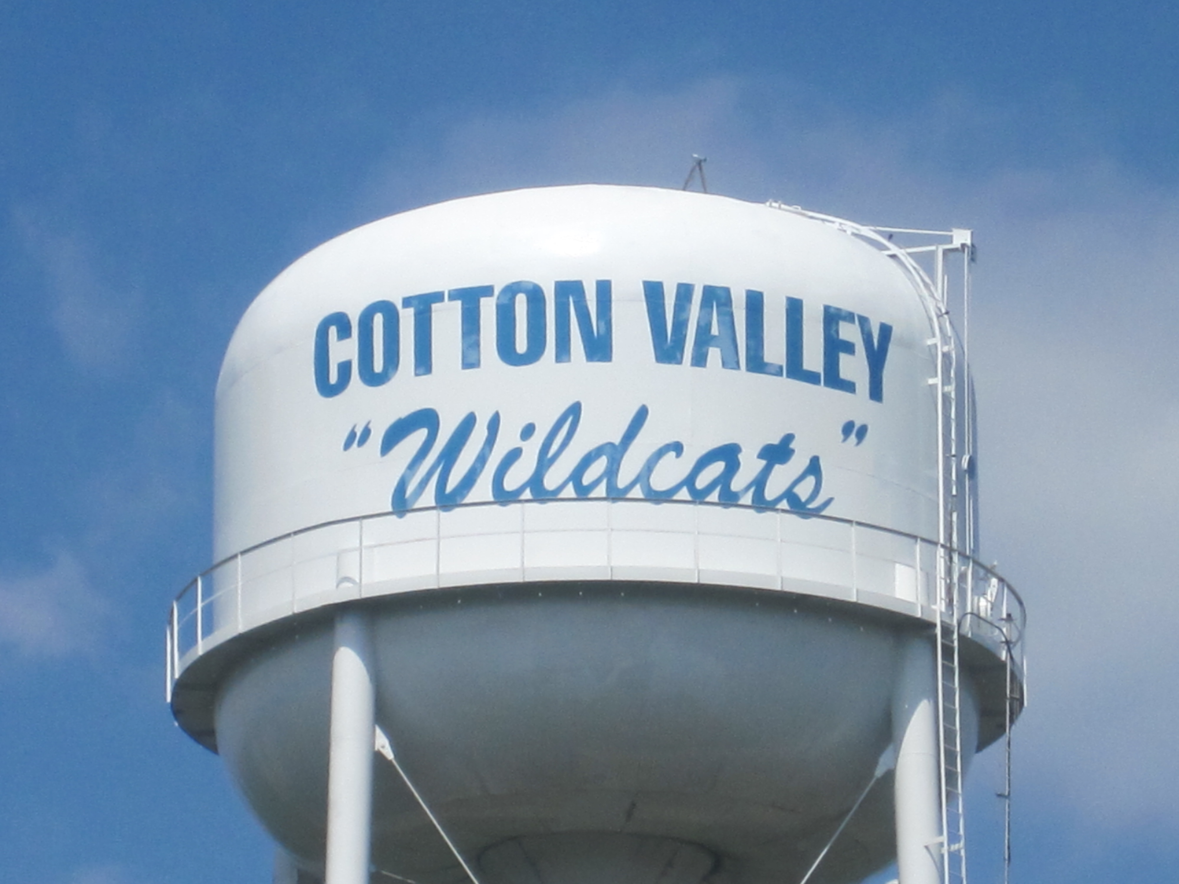 I took photo with Canon camera.